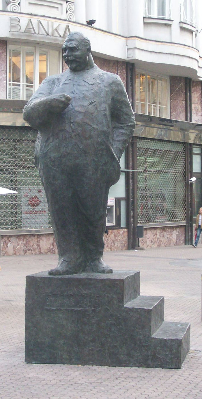 Stjepan Radic Monument in Zagreb, Croatia